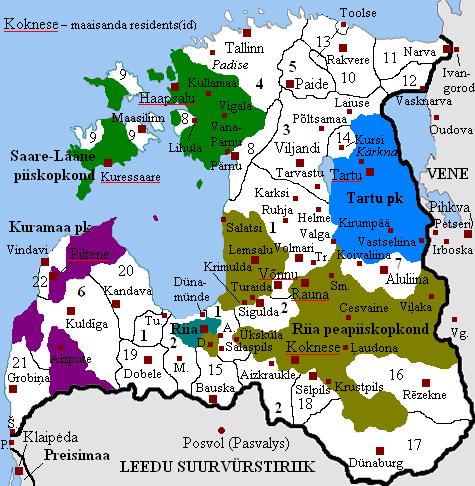 Livonian Confederation between years 1535 and 1558.